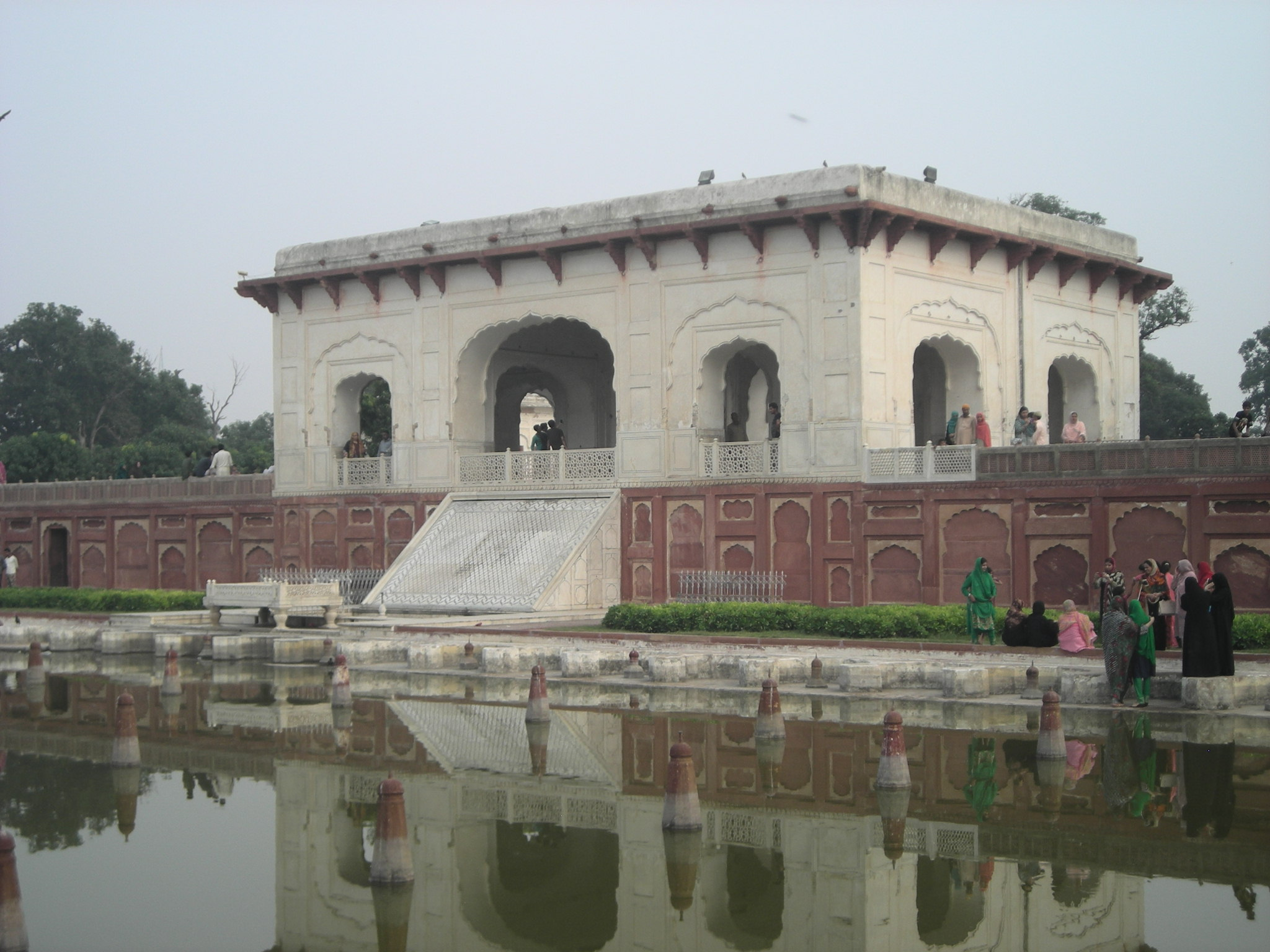 Shalimar Gardens This is a photo of a monument in Pakistan identified as the PB-84